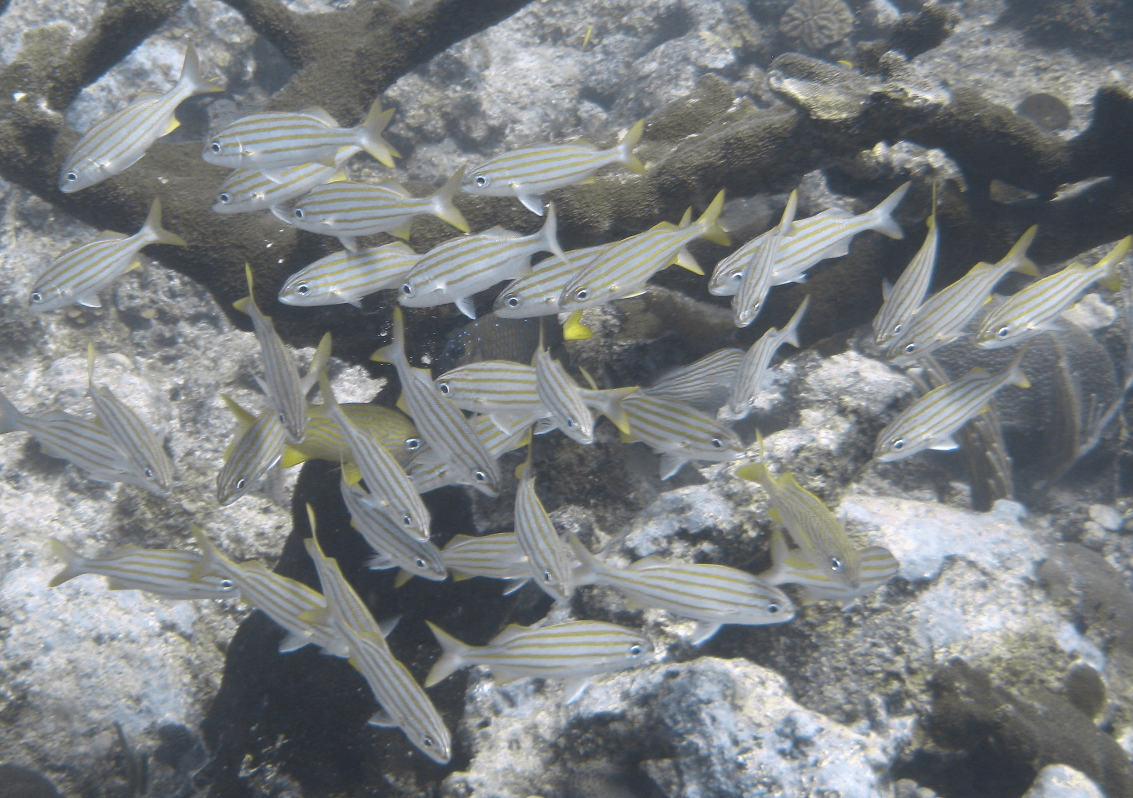 Group of Haemulon chrysargyreum in Akumal, Mexico (Carabean sea)